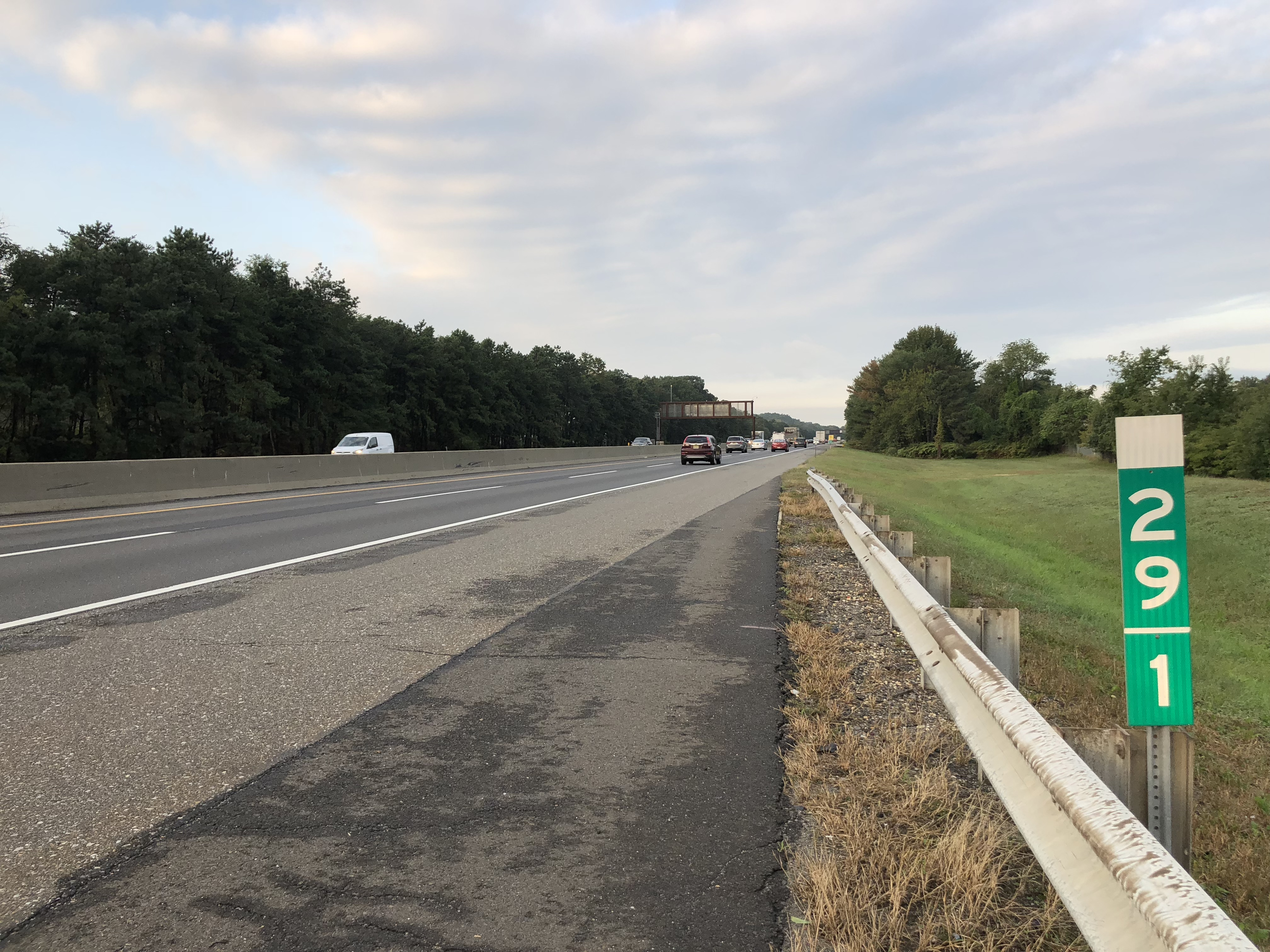 View south along New Jersey State Route 700 (New Jersey Turnpike) between Exit 4 and Exit 3 in Tavistock, Camden County, New Jersey